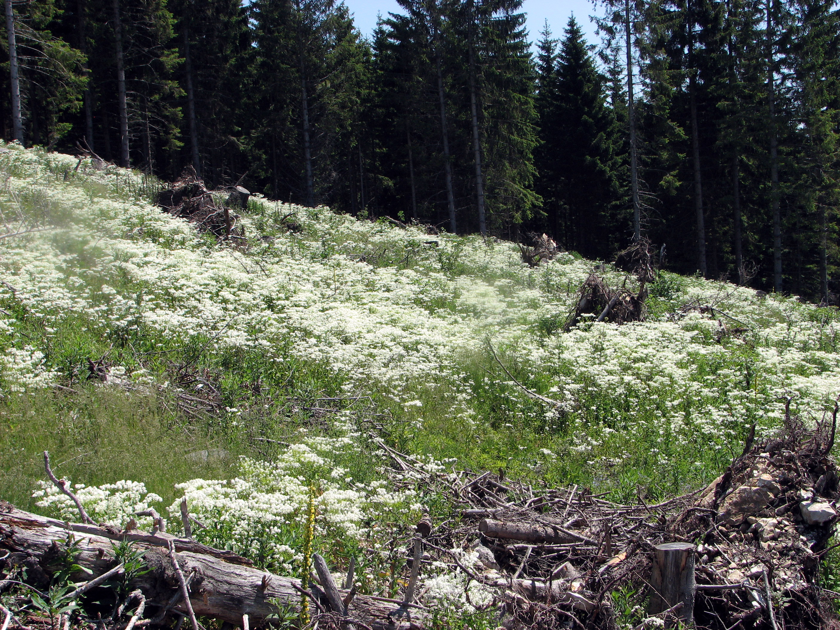 Peltaria alliacea found on Niederschoeckel near Graz, Styria (Austria)